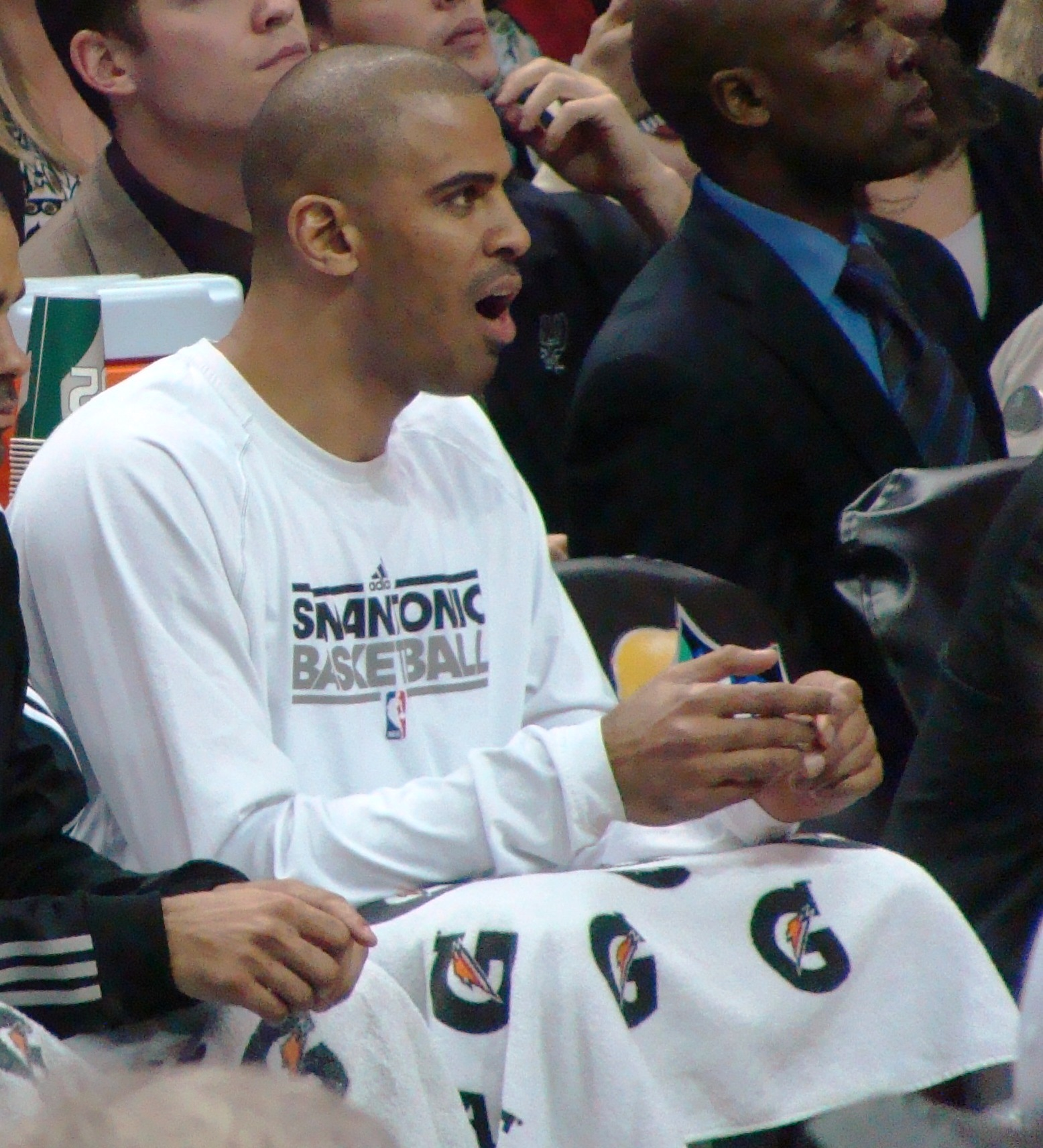 Ime Udoka of the San Antonio Spurs, during the Spurs-Nuggets match on 12-22-2010 in San Antonio, TX.